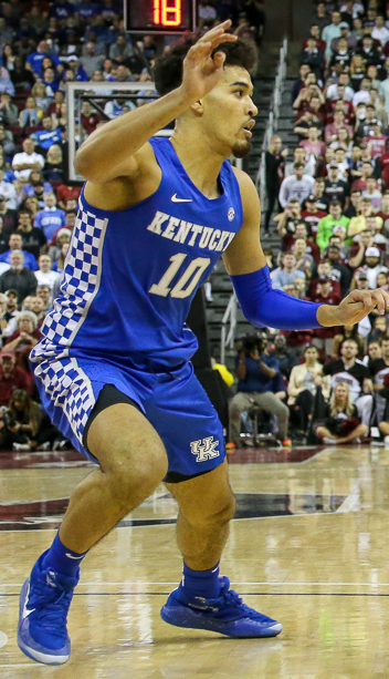 Photo by Chris Gillespie